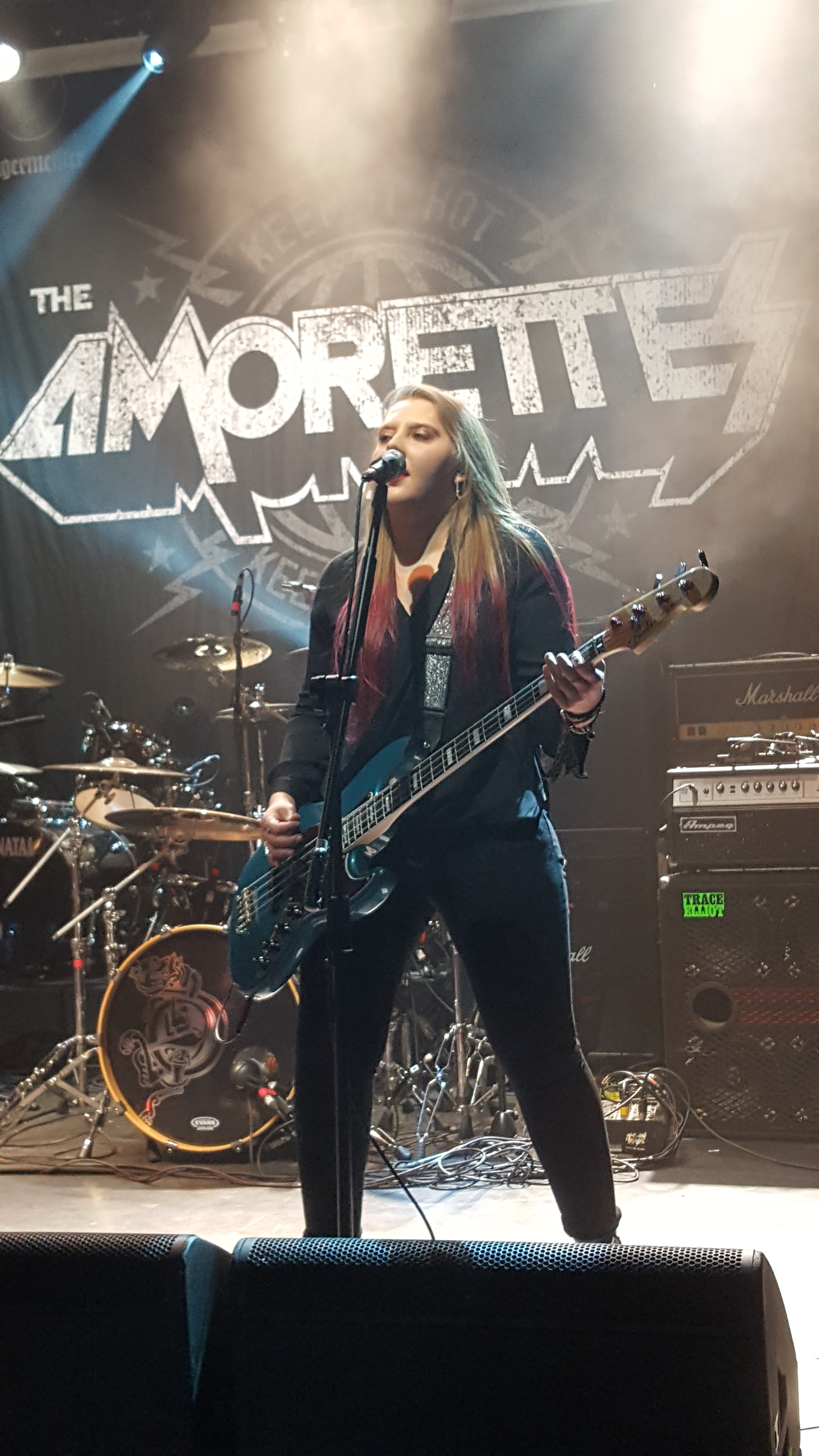 Morgan Pearce, bass guitarist with Flowerpot, performing with The Amorettes at the KOKO in London, 2 December 2018.